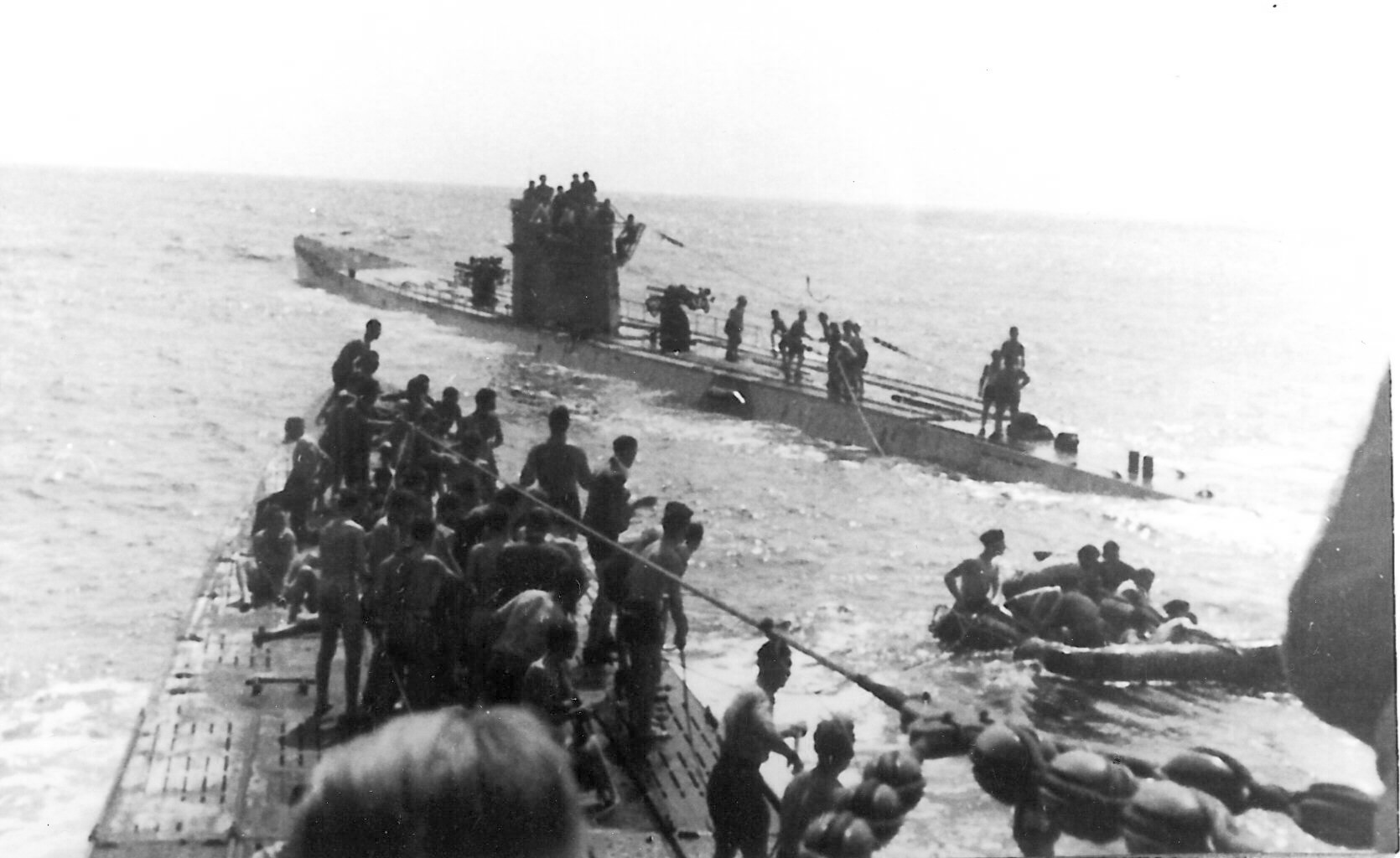 Shuttle service for shipwrecked persons from the Laconia between U156 (foreground) and U507 (background) See also: Spraul, G.: "Vom Fähnlein zur Fahne in den Tod", ISBN 978-3-86634-502-7, pp. 637